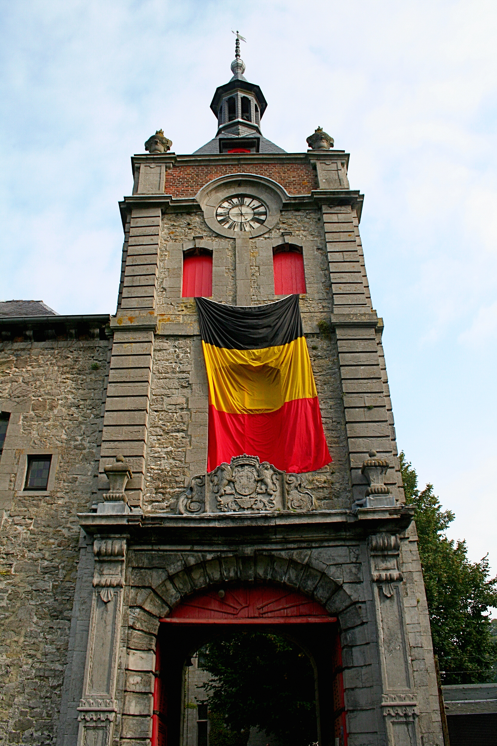 Écaussinnes-Lalaing (Belgium), tower-porch of the castle (XII/XVth centuries).